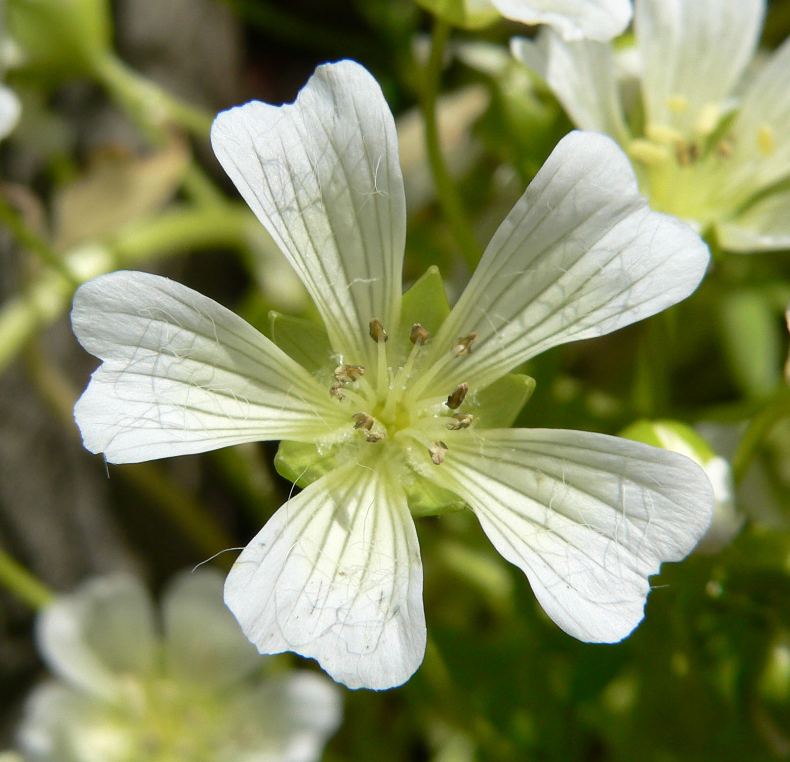 Limnanthes vinculans at the University of California Botanical Garden, Berkeley, California